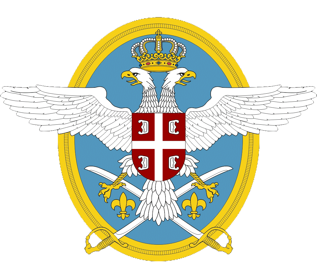 Serbian Air Force and Air Defence coat of arms